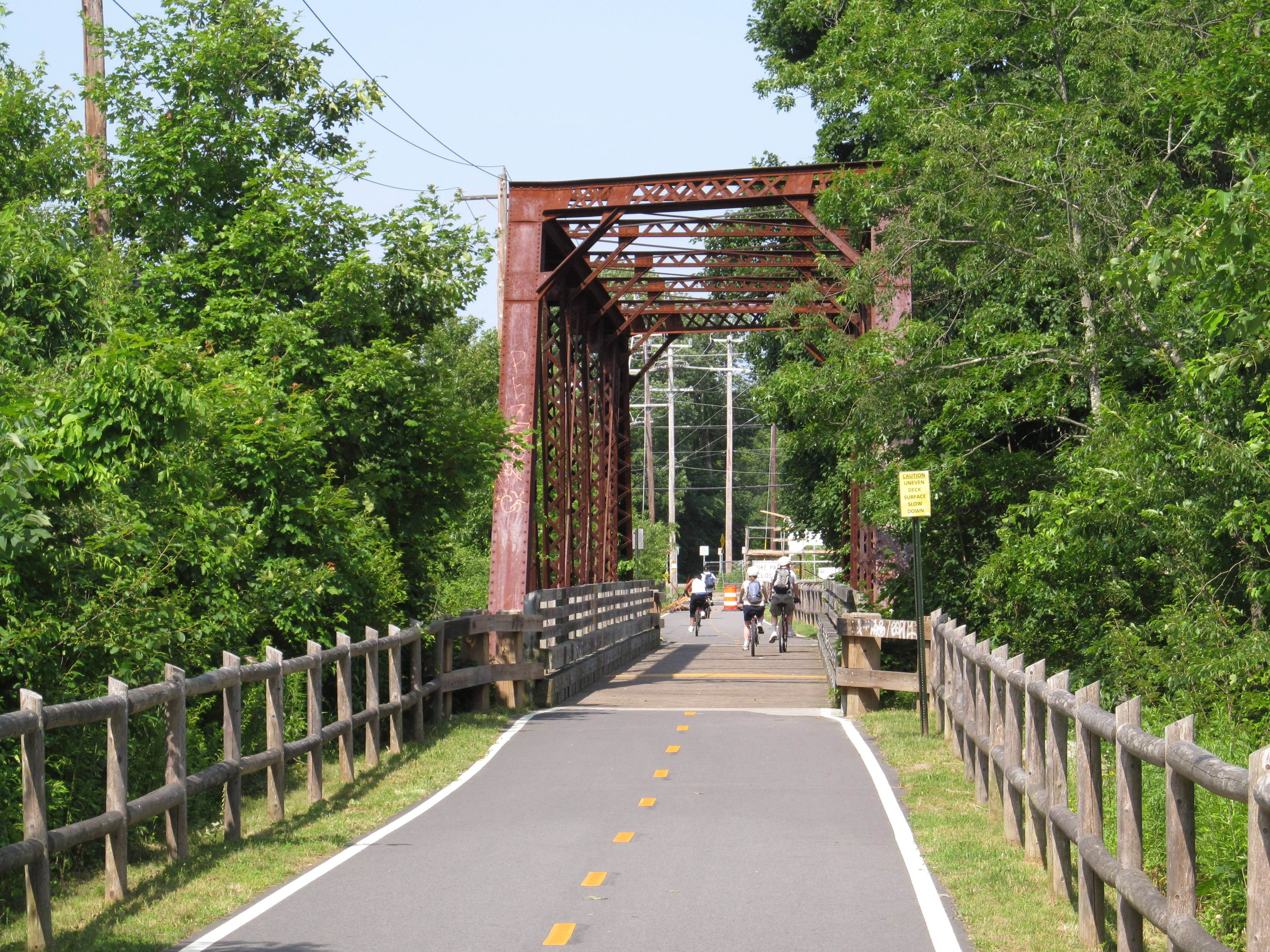 Truss bridge carrying the Washington Secondary Trail over the South Branch of the Pawtuxet River in Coventry, Rhode Island